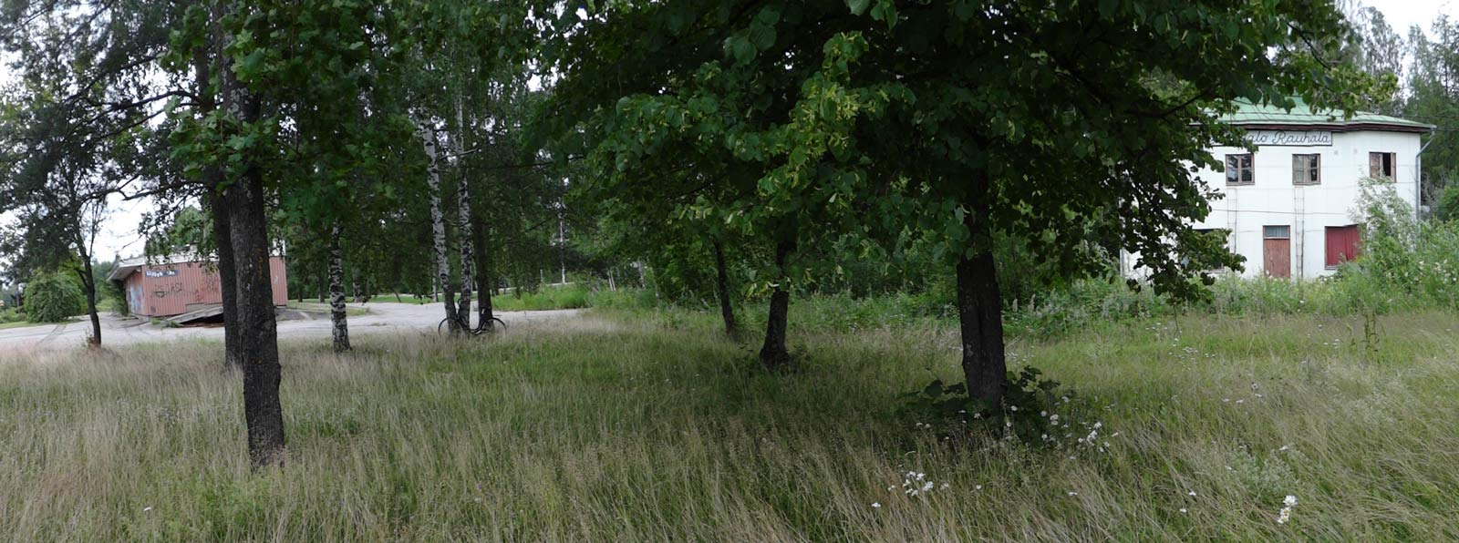 Myllykoski Station and Youthhostel Rauhala Inn Kouvola Finland